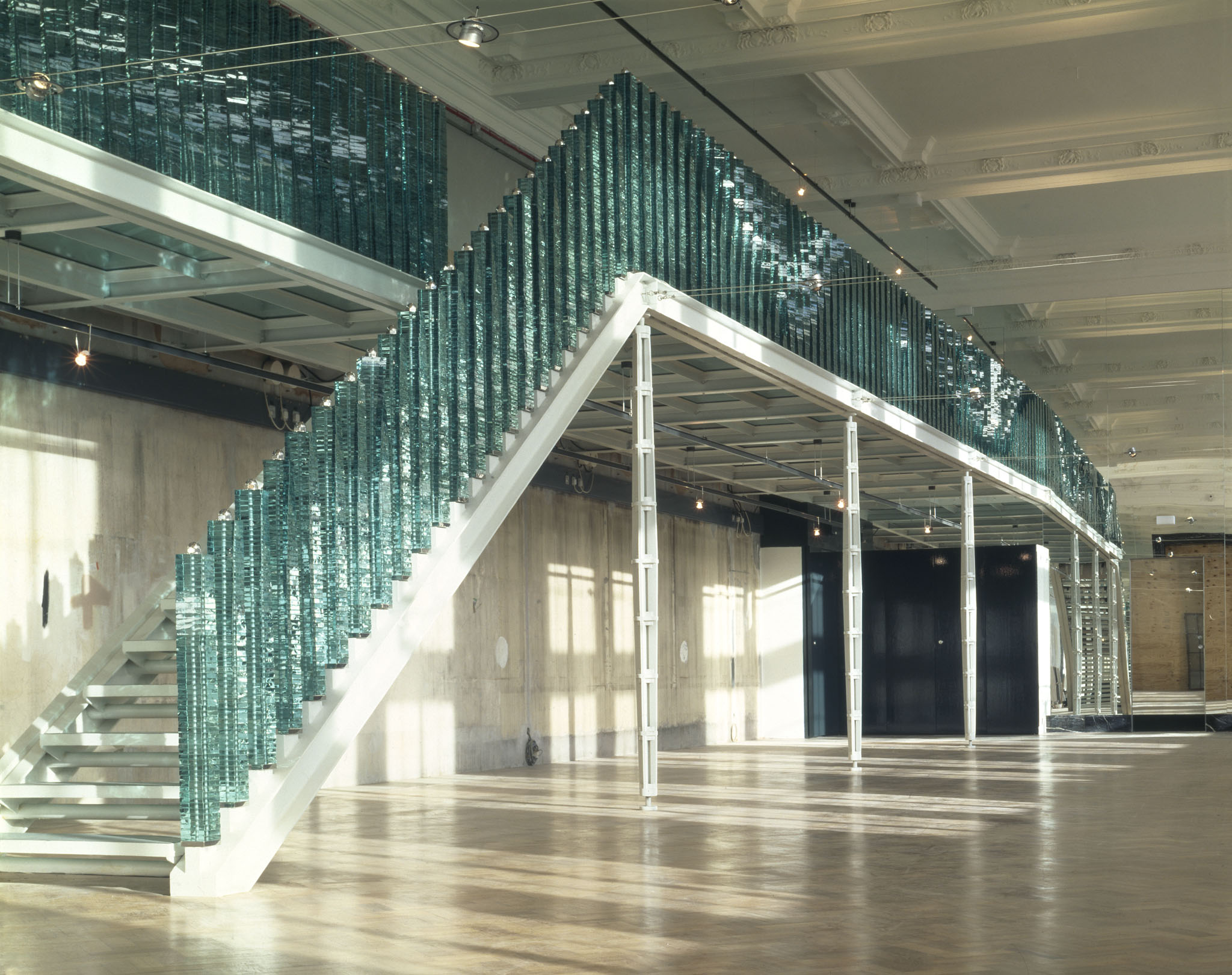 Balustrade, Danny Lane, 1994, Glass and steel